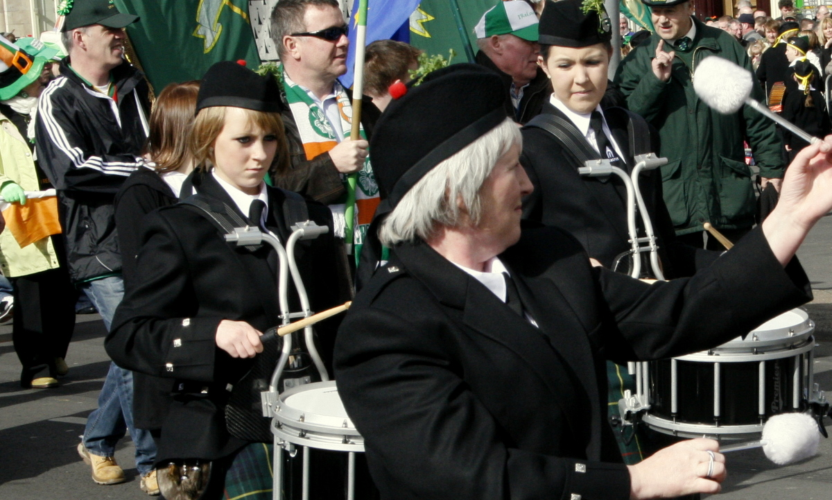 St. Patrick's day Parade in Birmingham (a few days early!). Reputed to be the third largest outside of Eire. Attended by over 80,000 people this year.